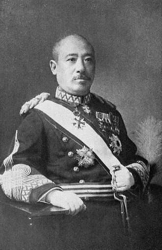 Masanao Koike